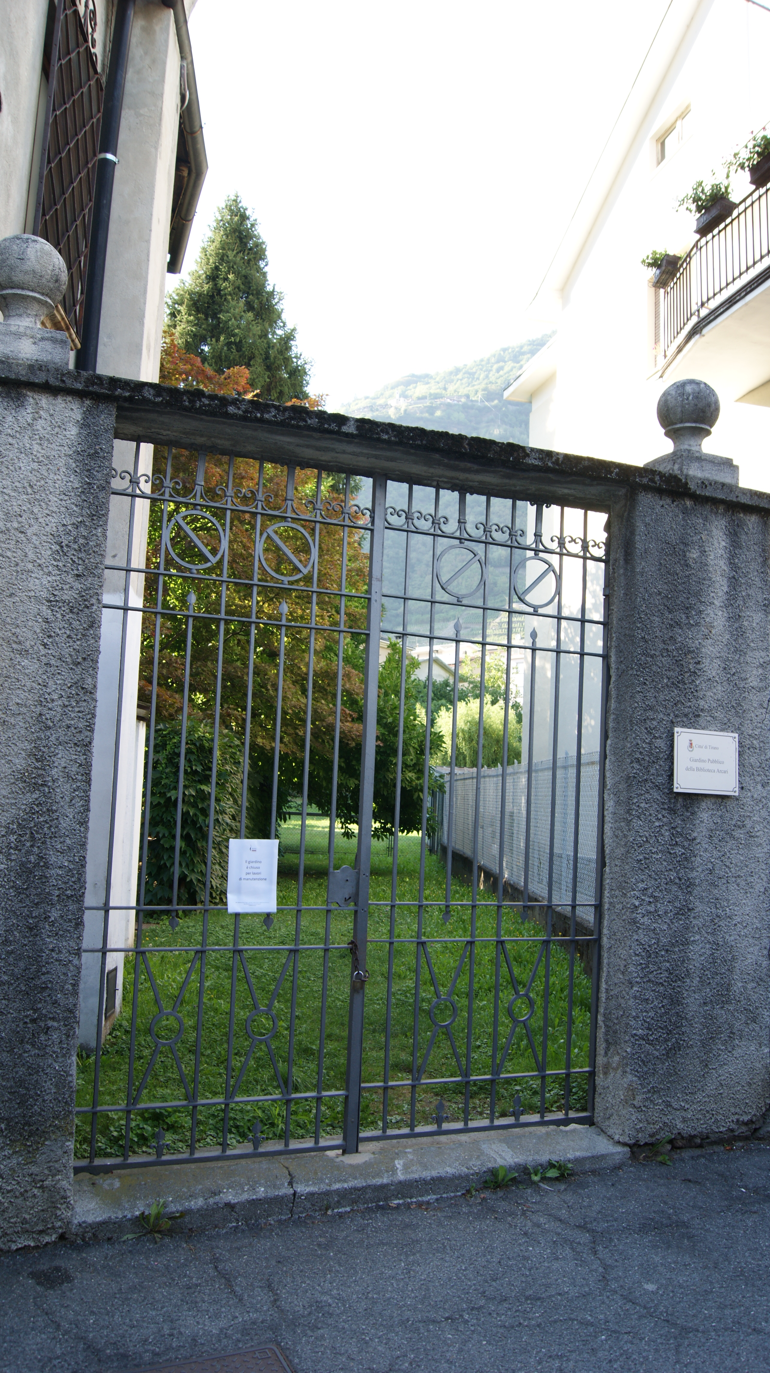 Tirano (Sondrio), Italy. Palazzo Pievani, Arcari Garden.